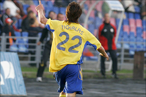 Igor Tigirlas celebrates his fantastic goal against Metallurg